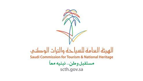 scth logo